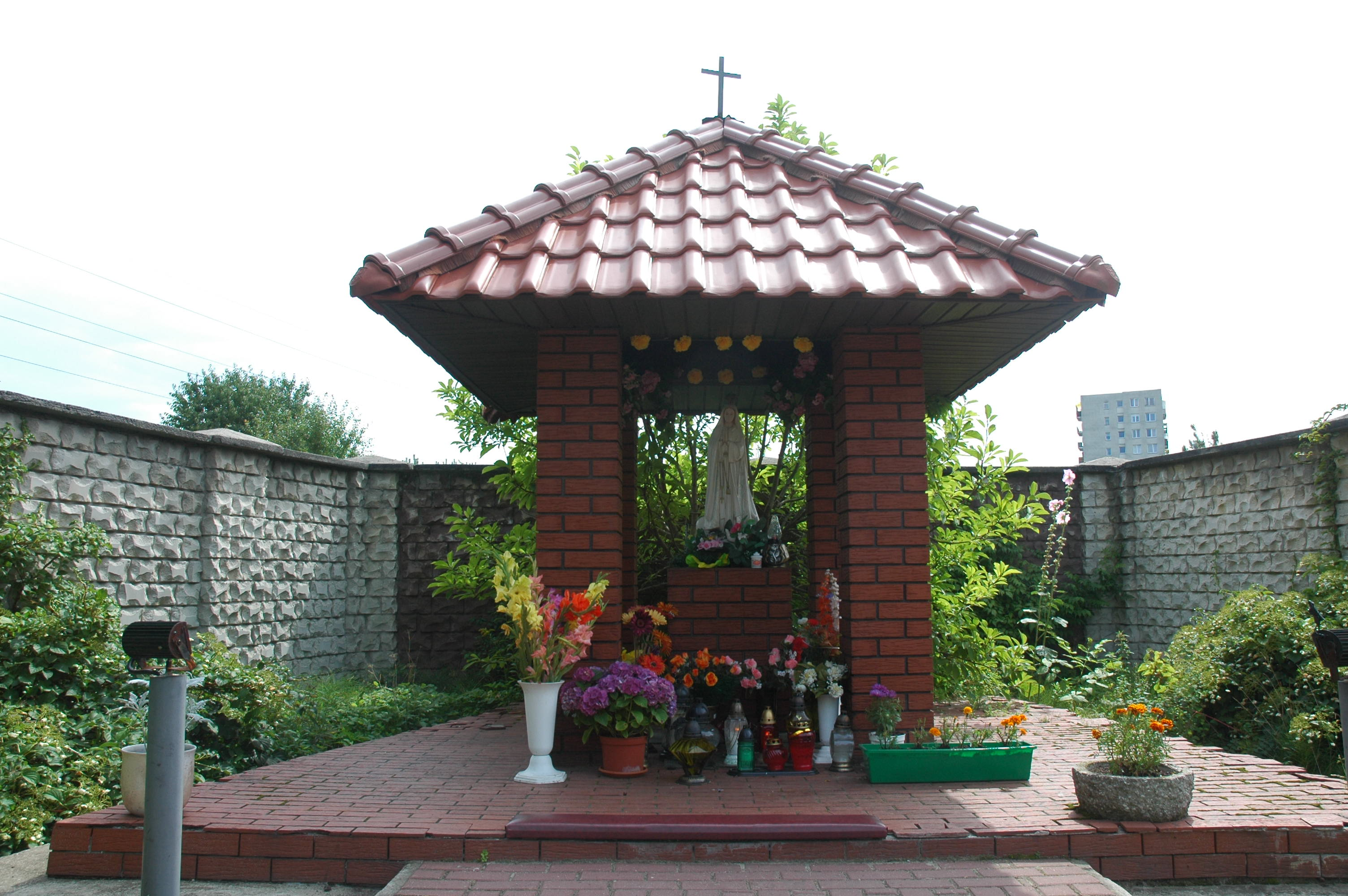 Church of Sts. Mary Magdalene in Warsaw - the Chapel of Our Lady of Fatima